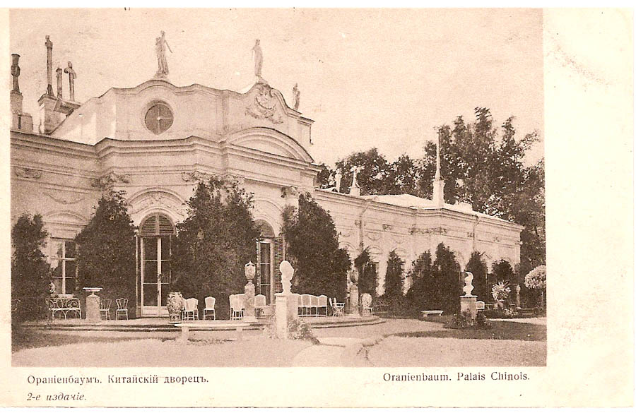 Oranienbaum. Chinese palace